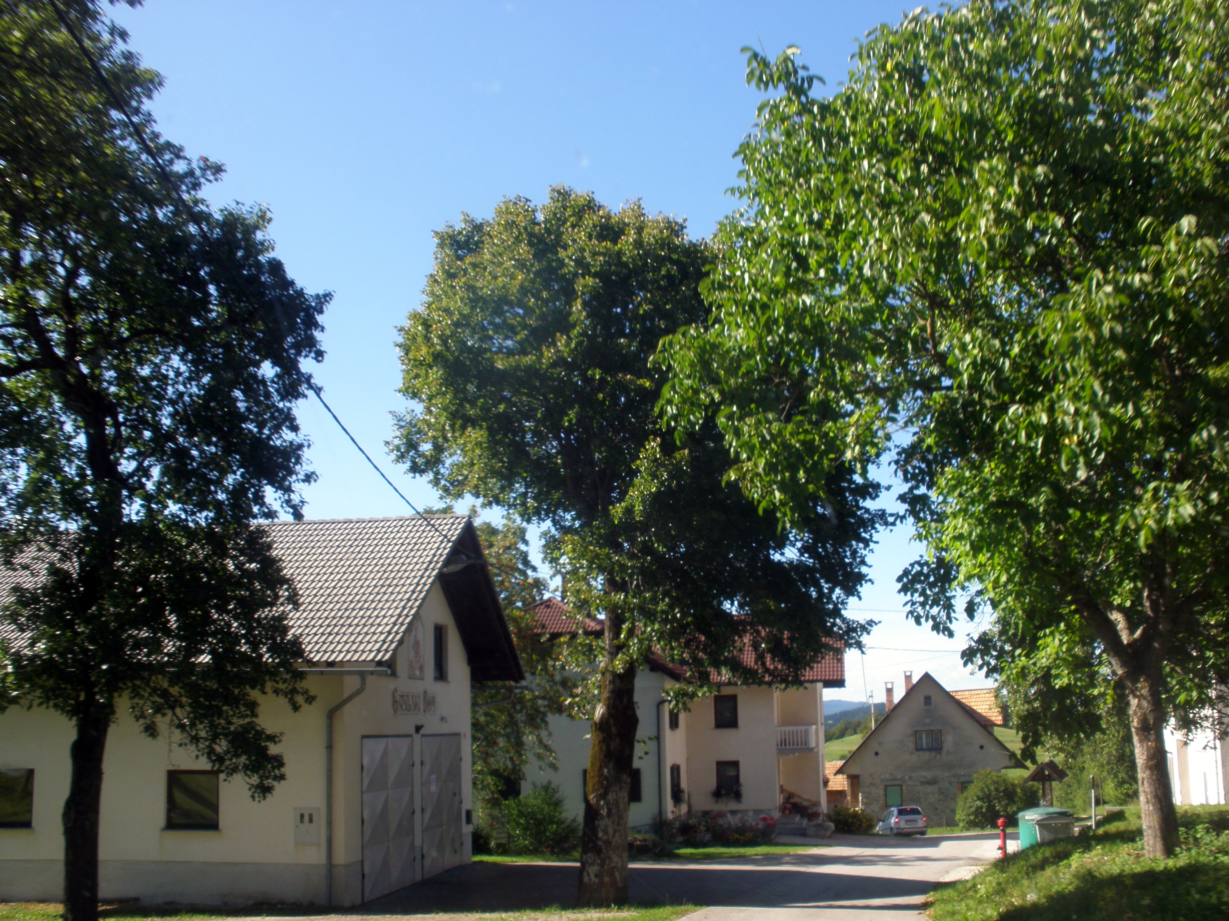 Gasilski dom (House of fire-workers), where died Magdalena Gornik and village Petrinci